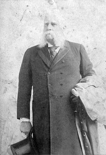 Founder of the Angola Penitentiary